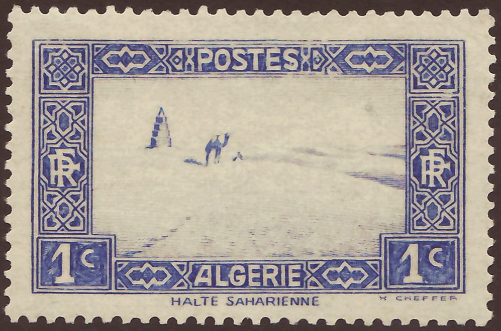 Stamp of French Algeria as French "Territoire d'Outre-Mer" (= T.O.M.); 1936; definitive stamp of the issue "10th Anniversary of the Algerian Postage Stamps" (so-called "Sahara-issue"); drawing of an Saharian stop point; mint stamp with smooth gum Stamp: Michel: No. 103; Yvert et Tellier: No. 101 Color: violet blue to greyish ultramarine Watermark: none Nominal value: 1 C (Centime) Postage validity: from 1936 until ? Stamp picture size (printed area without below signature line): 35.5 x 21.0 mm